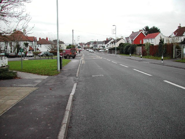 The a370 runs through Backwell.